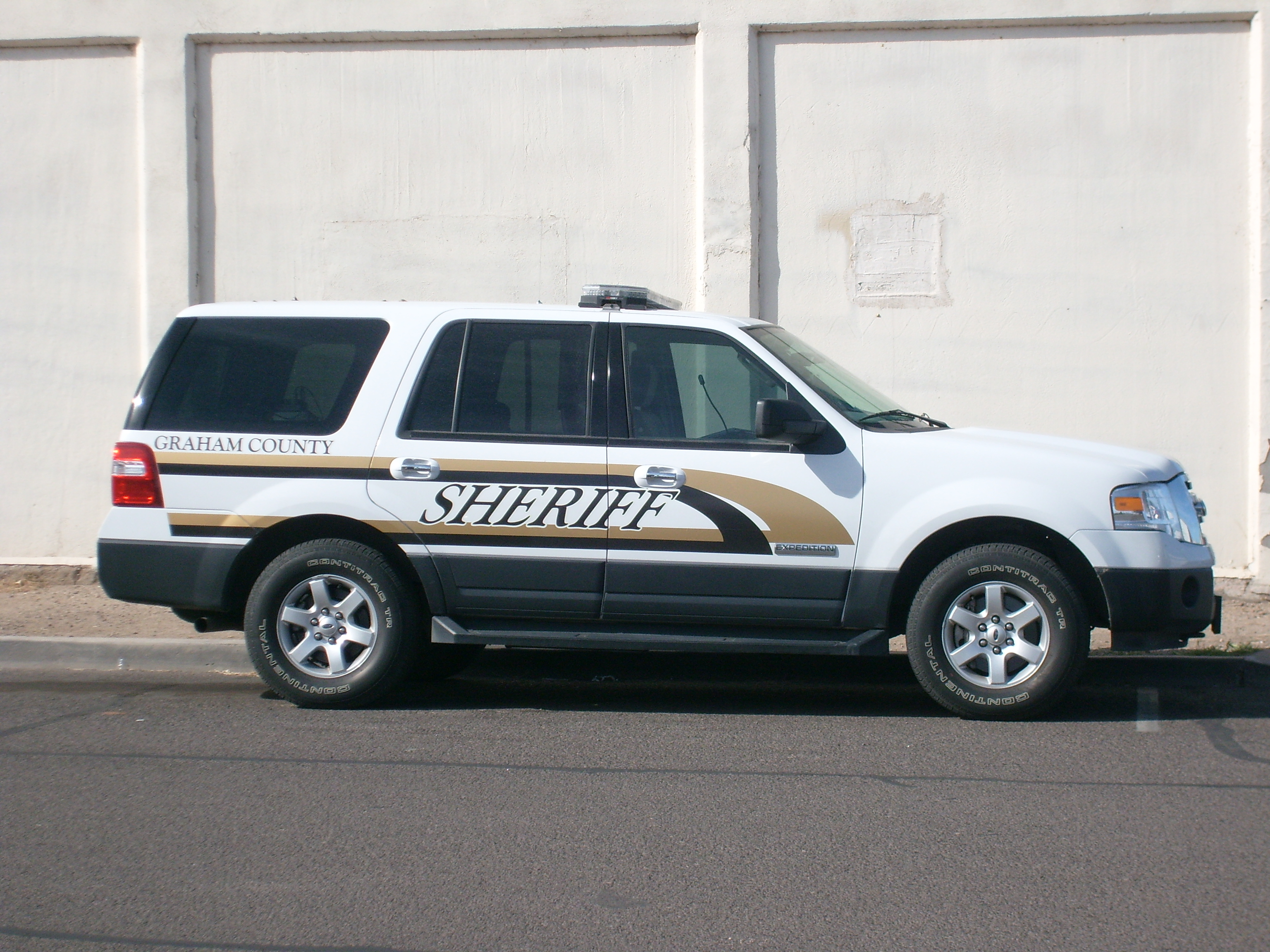 Picture of a Graham County Sheriff's Office patrol vehicle in Safford, Arizona.